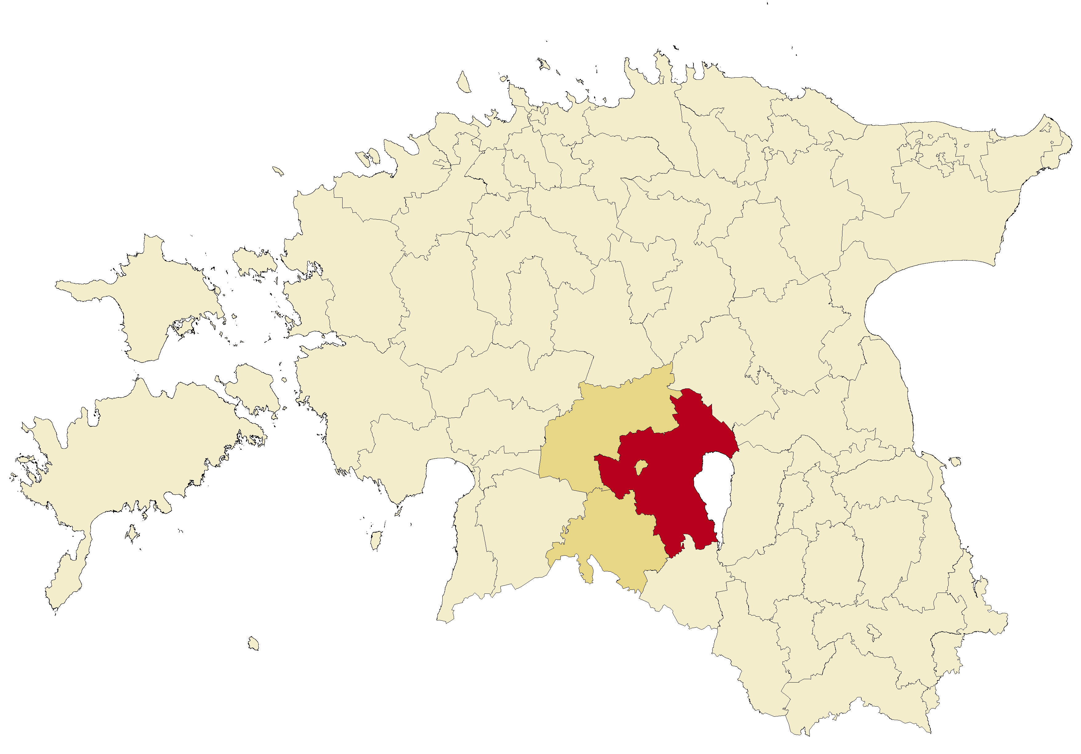 Location of Viljandi Parish (red) within Viljandi County (dark yellow) after the Administrative Reform of Estonia in 2017.